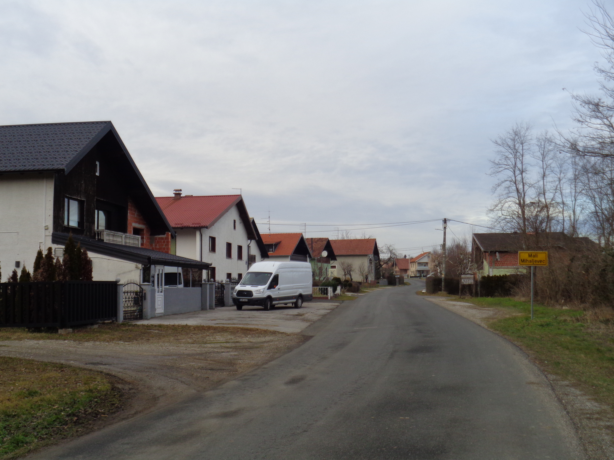 Mali Mihaljevec village, Medjimurje County, Croatia - entrance